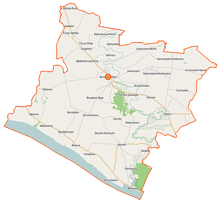 Map of Gmina Brudzeń Duży, Poland This map of Brudzeń Duży (gmina) was created from OpenStreetMap project data, collected by the community. This map may be incomplete, and may contain errors. Don't rely solely on it for navigation. Border coordinates52.728219.3627←↕→19.650452.5672